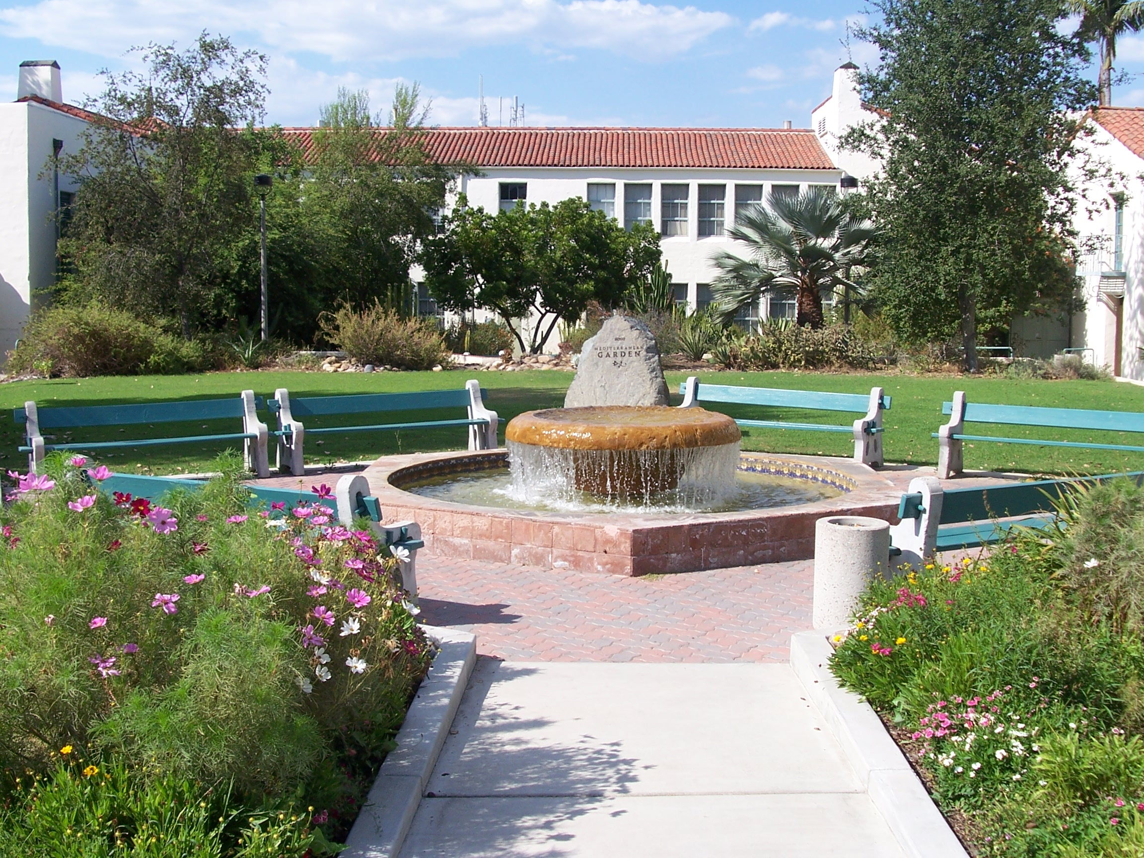 Courtyard with a fountain near the Physical Science Building at San Diego State University.